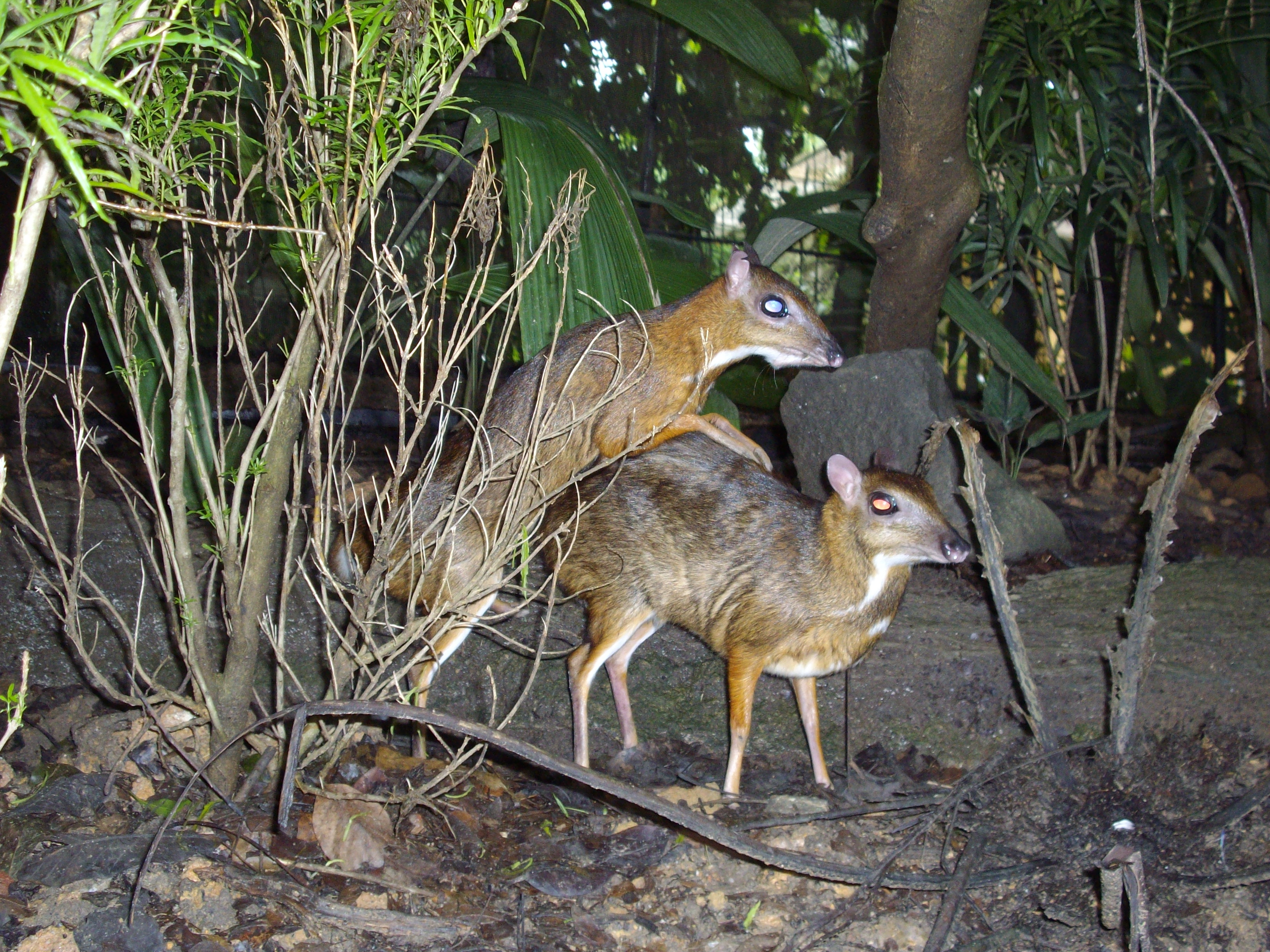 Singapore Zoo's natural artificially created forested environment makes its resident zoo animals accustomed to human tourists. These normally shy and rare "Mouse deers' are mating while tourists walk through their enclosure which also houses various other animal and bird species, a huge artificial forest area enclosure.